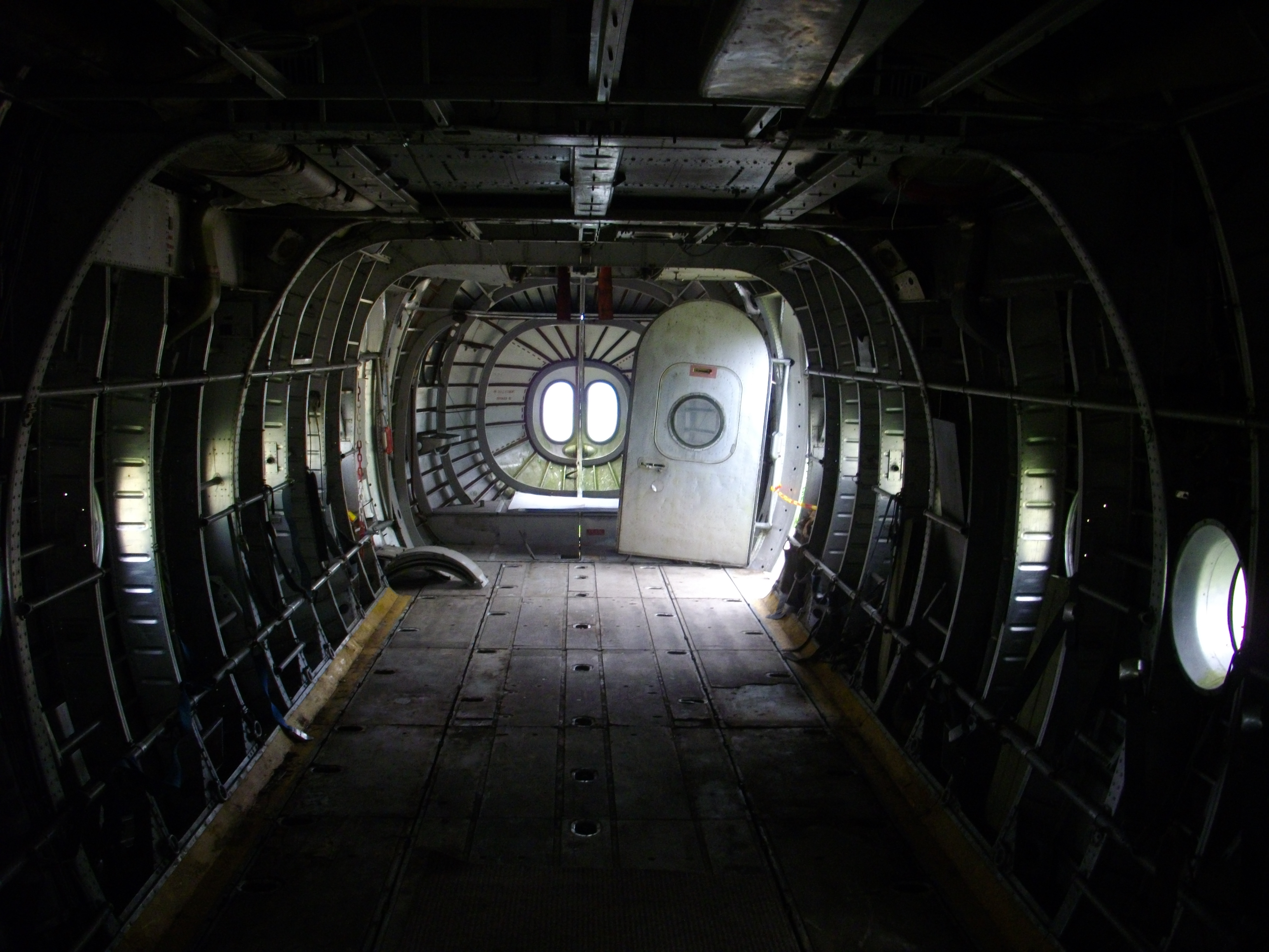 Nord 2501 Noratlas of Morbihan Aéro Musée (Monterblanc, Morbihan, France) during Les Ailes de la Victoire exhibition 2015